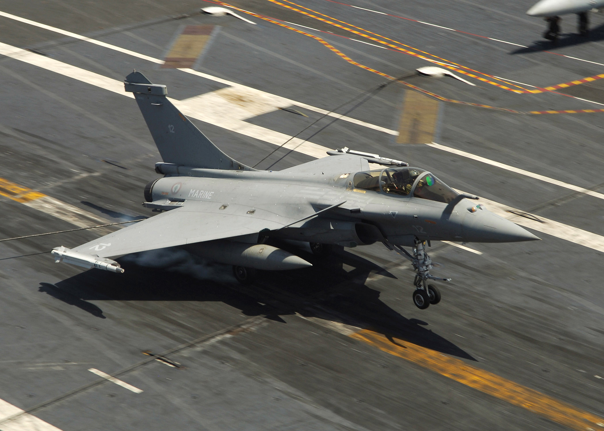 MEDITERRANEAN SEA (July 23, 2007) - A French Rafale M combat aircraft from the French nuclear-powered aircraft carrier Charles De Gaulle lands on the flight deck of the nuclear-powered aircraft carrier USS Enterprise (CVN 65). Enterprise and embarked Carrier Air Wing (CVW) 1 are currently underway on a scheduled six-month deployment. U.S. Navy photo by Mass Communication Specialist 3rd Class Octavio N. Ortiz (RELEASED)